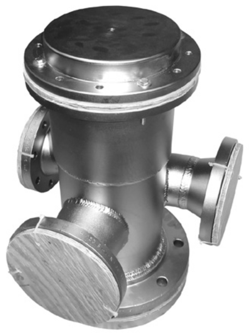 Смесительная камера "Blandaire" Algas-SDI